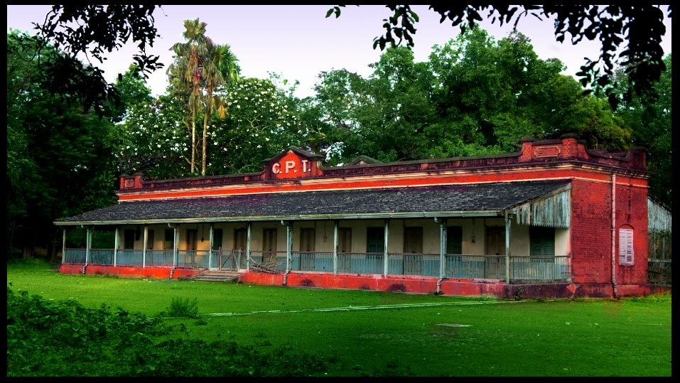 Shimurali Callcutta( Now, Kolkata) Port Trust